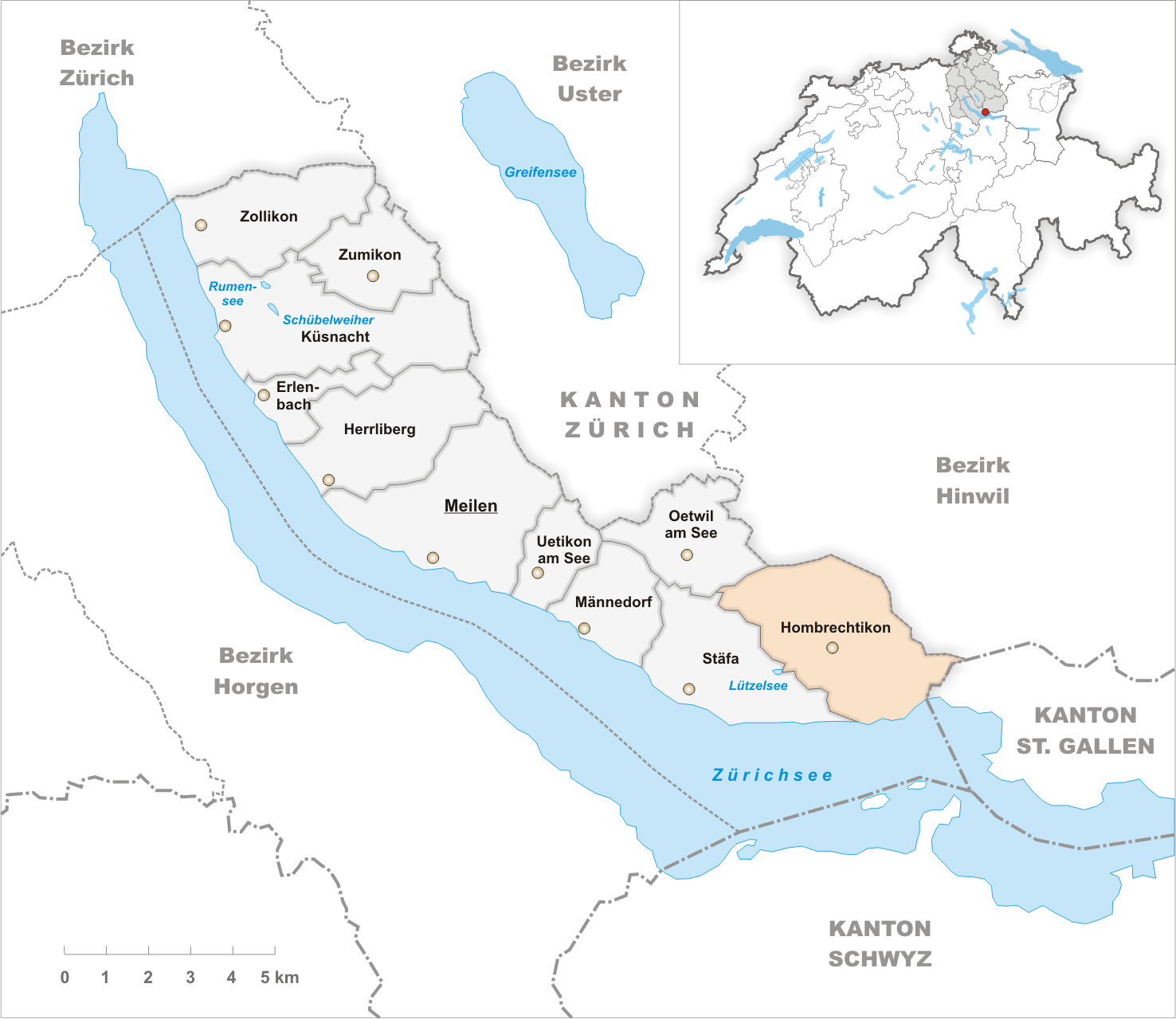 Municipality Hombrechtikon